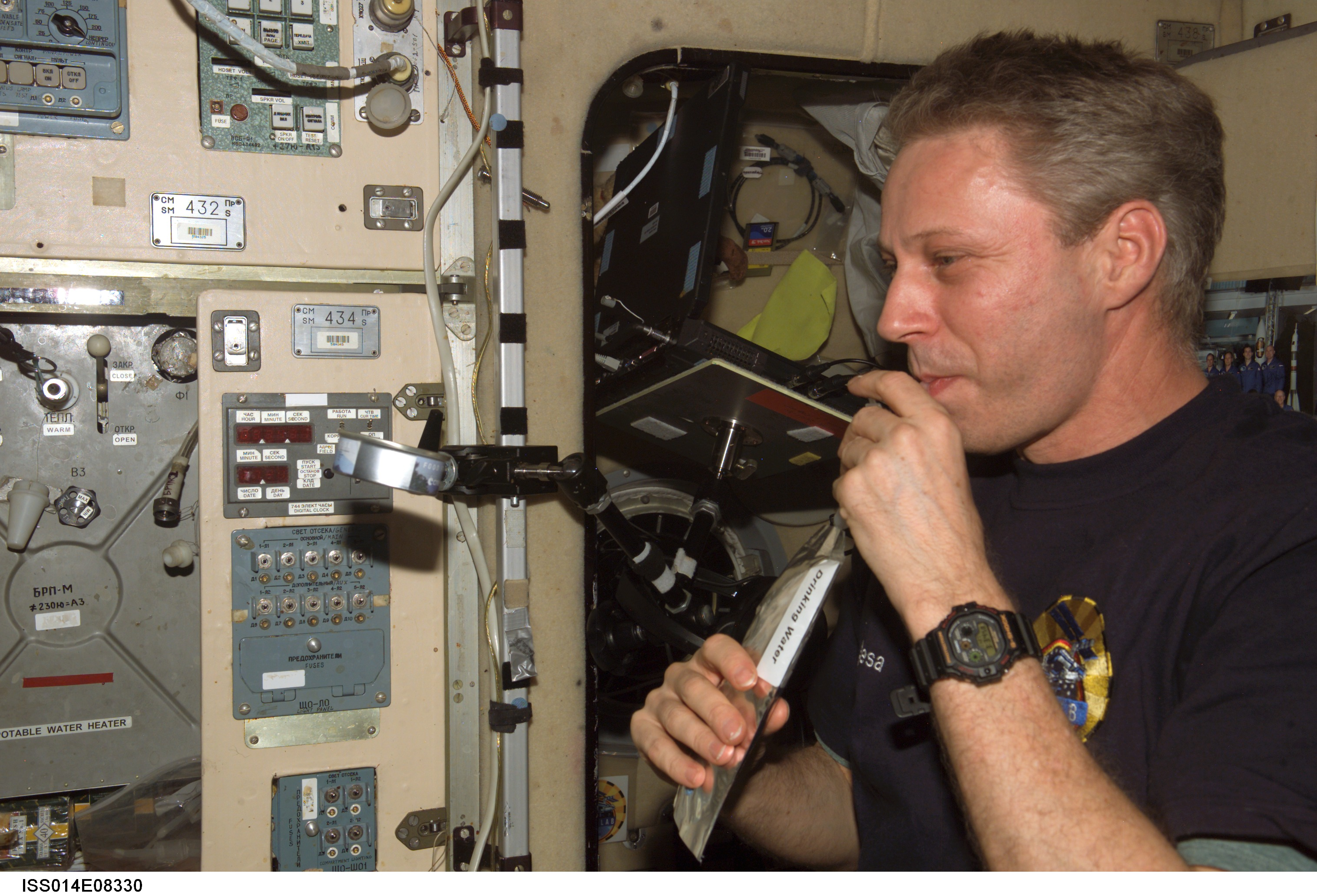 ISS014-E-08330 (27 Nov. 2006) --- European Space Agency (ESA) astronaut Thomas Reiter, Expedition 14 flight engineer, drinks a beverage in the Zvezda Service Module of the International Space Station.